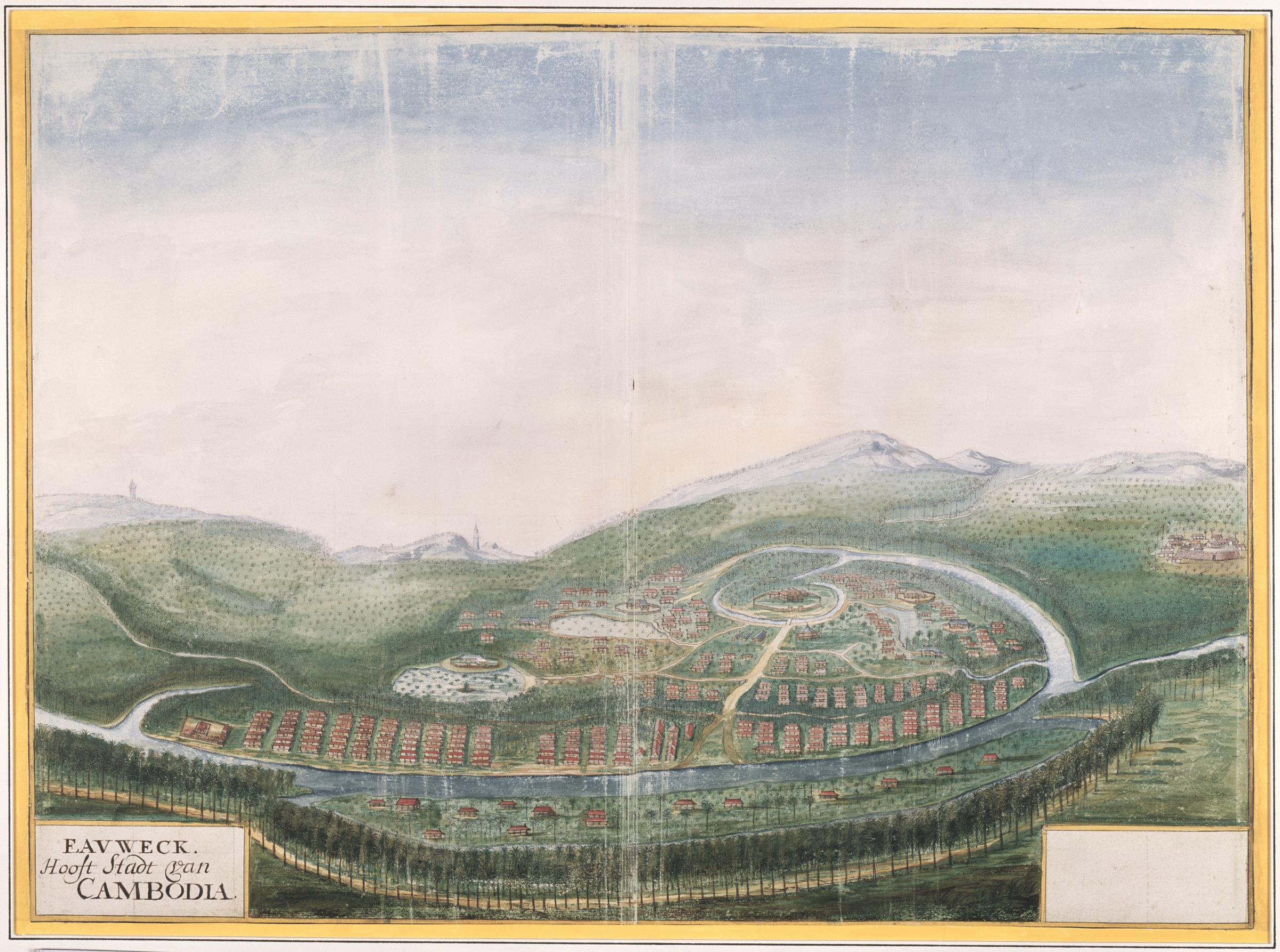 Title in the Leupe catalogue (NA): Gezicht in vogelvlucht op ,,Eauweck hooftstadt van Cambodia'. This corresponds exactly with the illustration rendered in Valentijn III, 2nd part, page 36. The city of Eauweck, shown in the centre of this illustration, is surrounded by hills, forests and a river. Bottom left the inscription reads Eauweck. Hooft Stadt van Cambodia, the E has possibly been transcribed wrongly and it may be the city of Lawec was meant. Cf. Koninklijke Bibliotheek, The Hague, inv. nr. 693 C 6 part XII, op. p. 290.